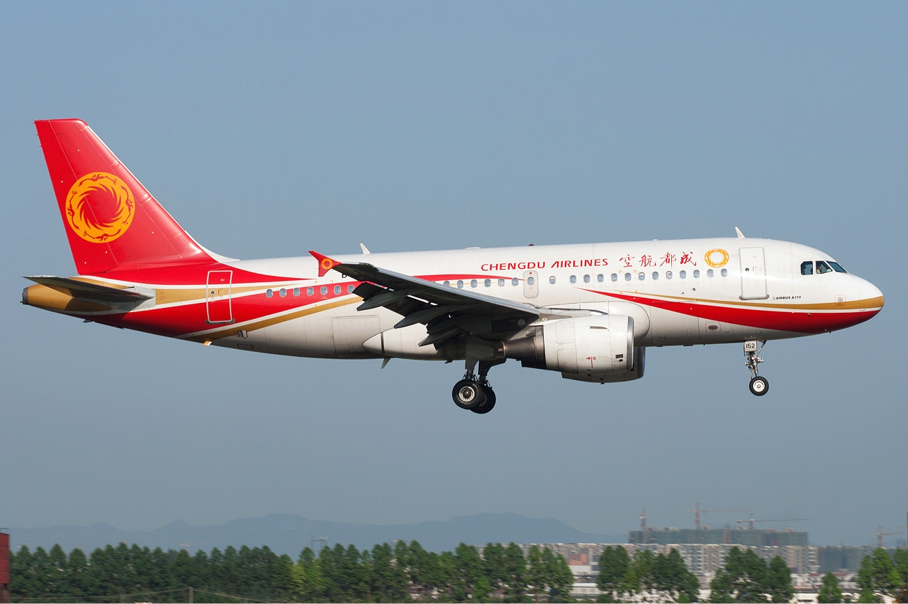 Chengdu Airlines Airbus A319-112